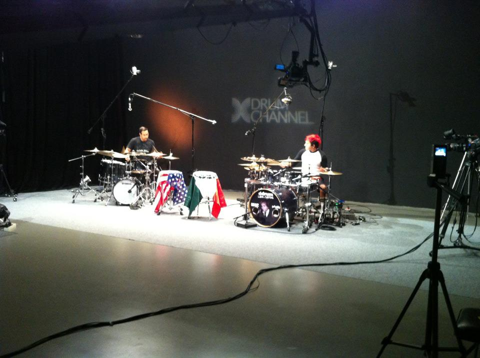 Luis Campos Antonio Sanchez